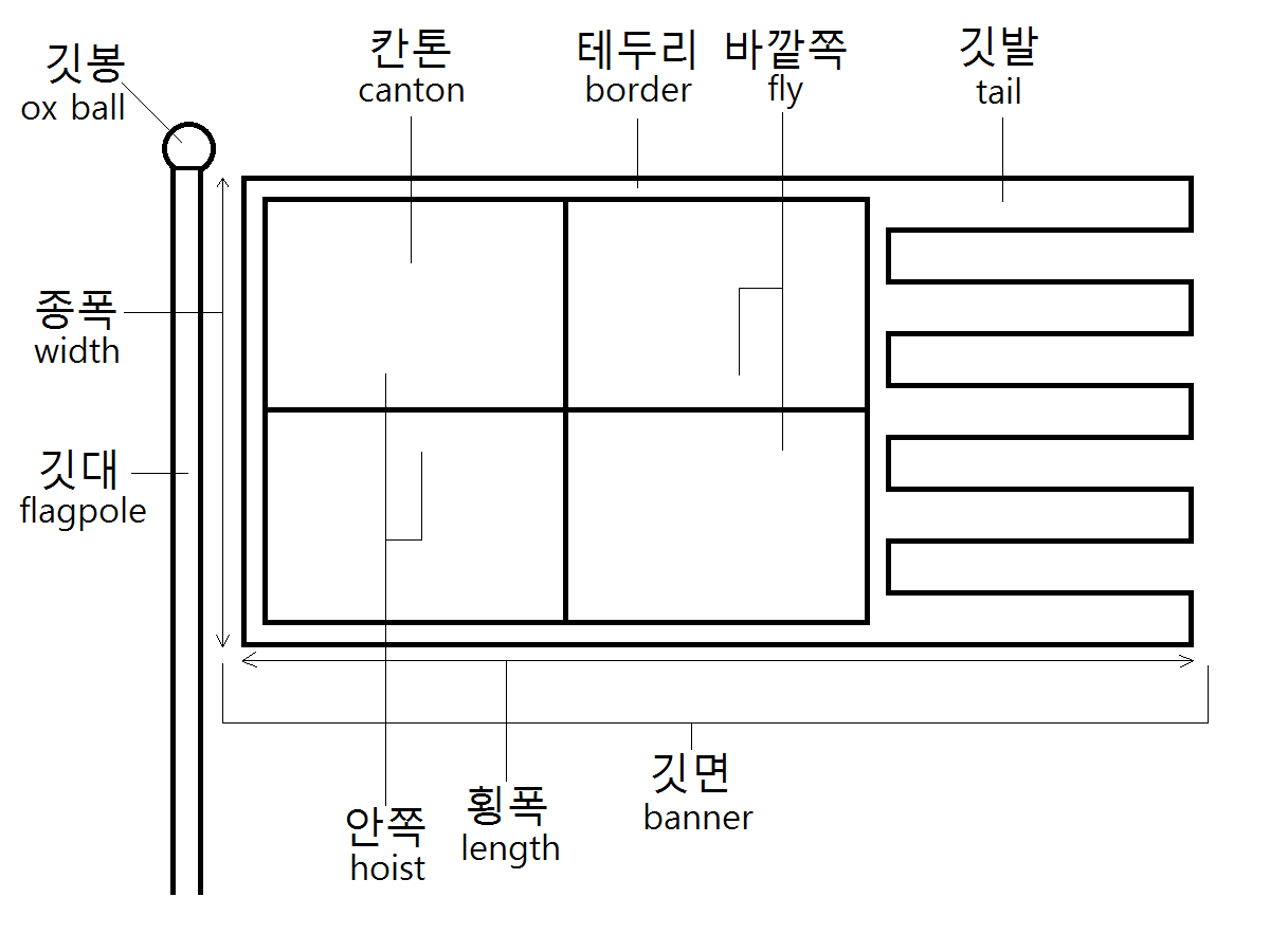 flag components